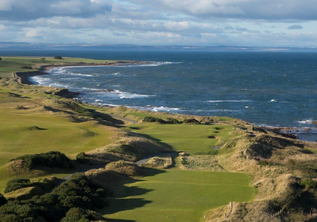 Official photo of Kingsbarns Golf Links 2nd hole and coastline, taken by Iain Lowe at Iain Lowe Photography